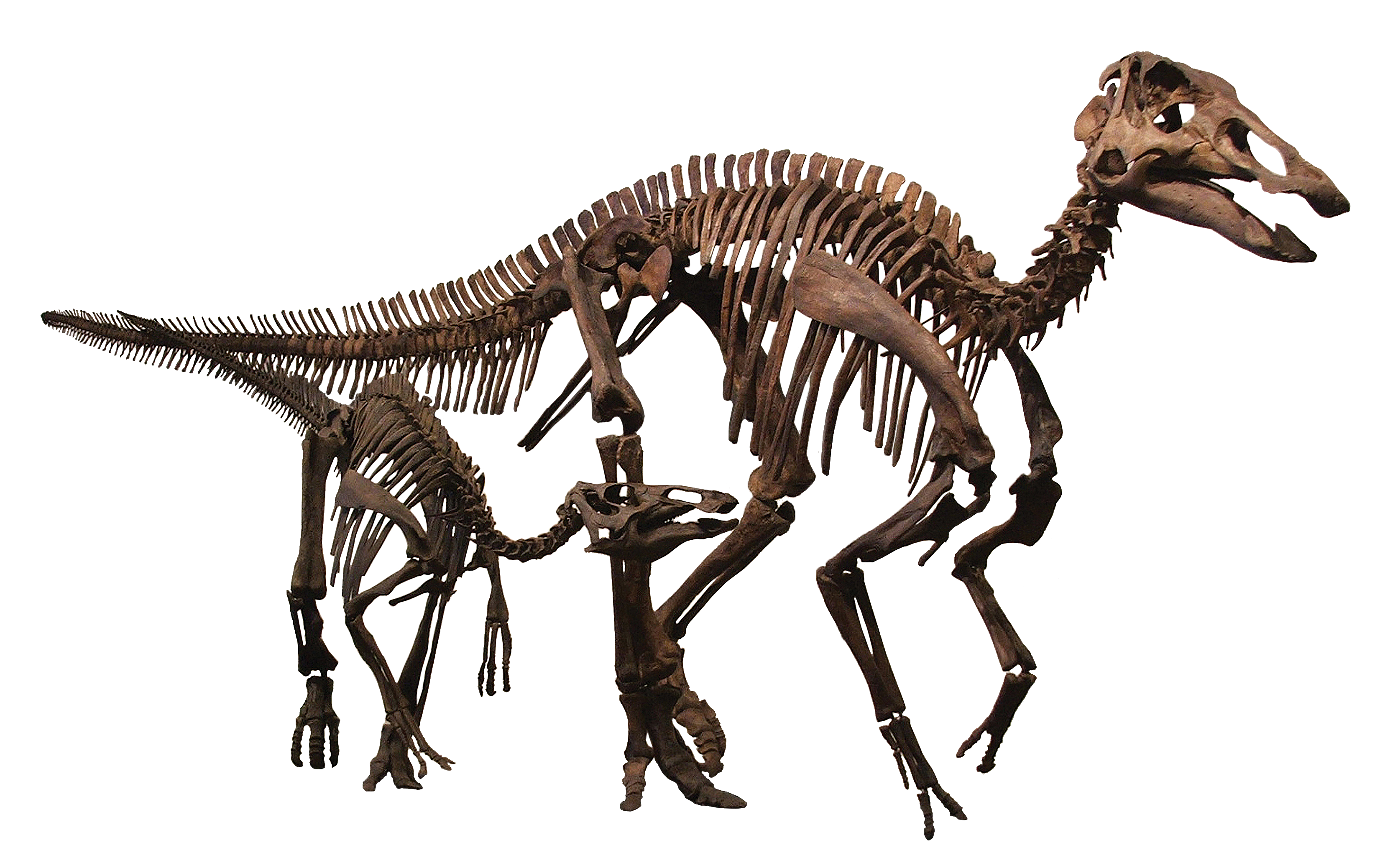 Edmontosaurus in the Rocky Mountain Dinosaur Resource Center, Woodland Park, Colorado